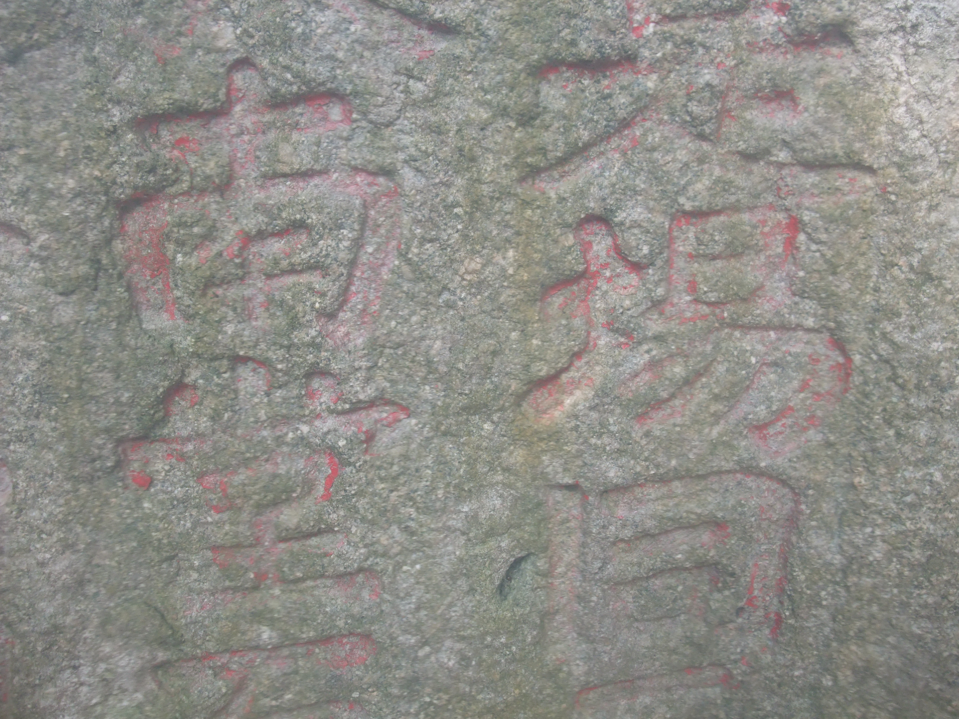 Photo of Joss House Bay Rock Inscription